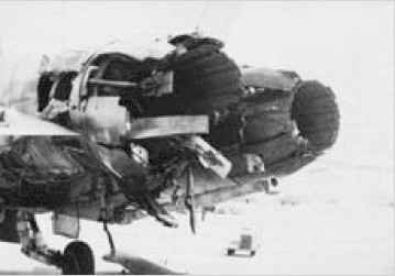 Battle damage from a SA-7 Grail surface-to-air-missile on a F/A-18D Hornet of U.S. Marine Corps squadron VMFA(AW)-121. The aircraft was hit on the first day of the 1990/91 Gulf War, on 17 January 1991.